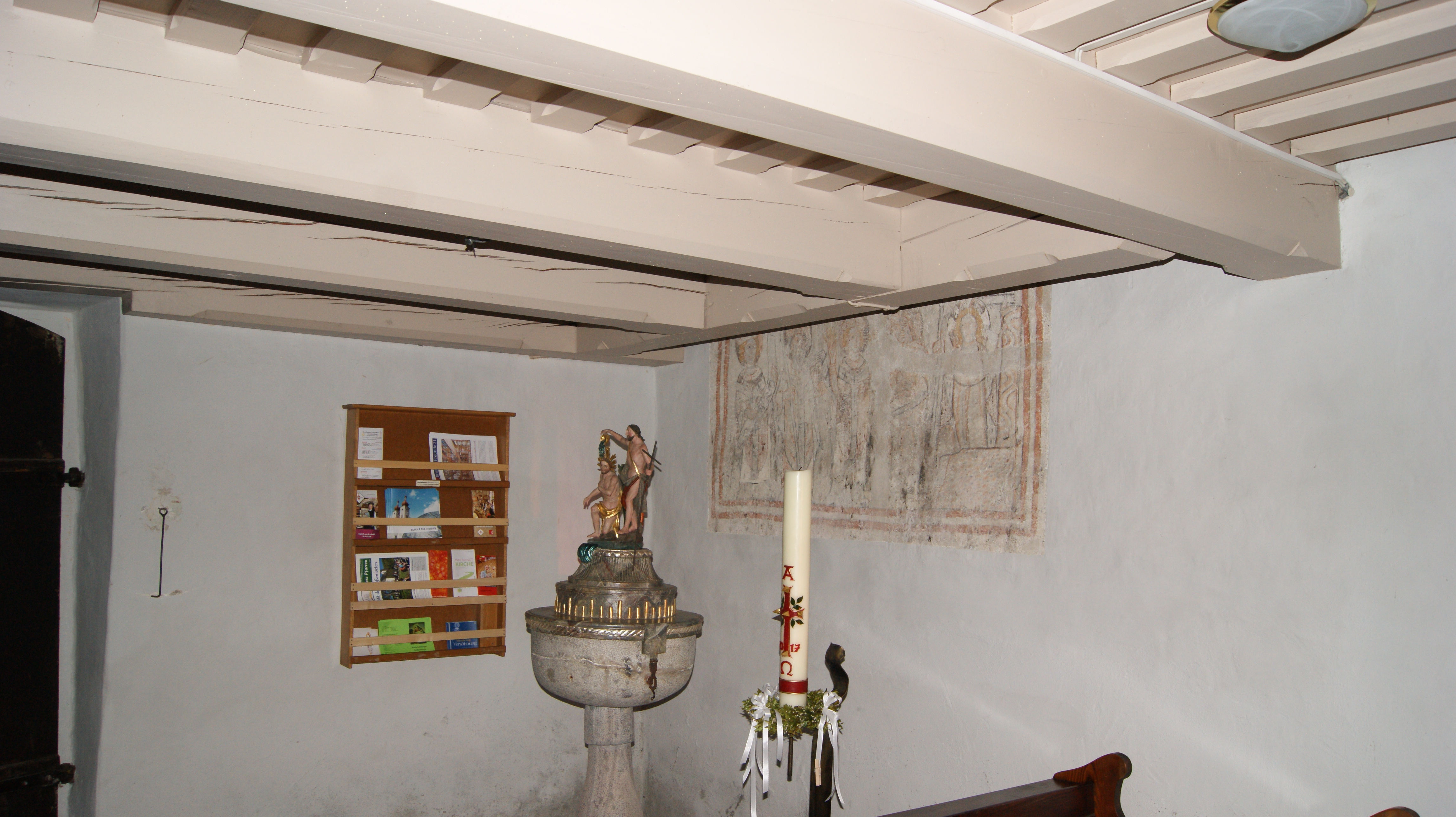 Baptismal font and fresco in the church of Zeutschach, Styria, Austria. Frescoes from the middle of the 14th century. Baroque baptismal font, 1724.